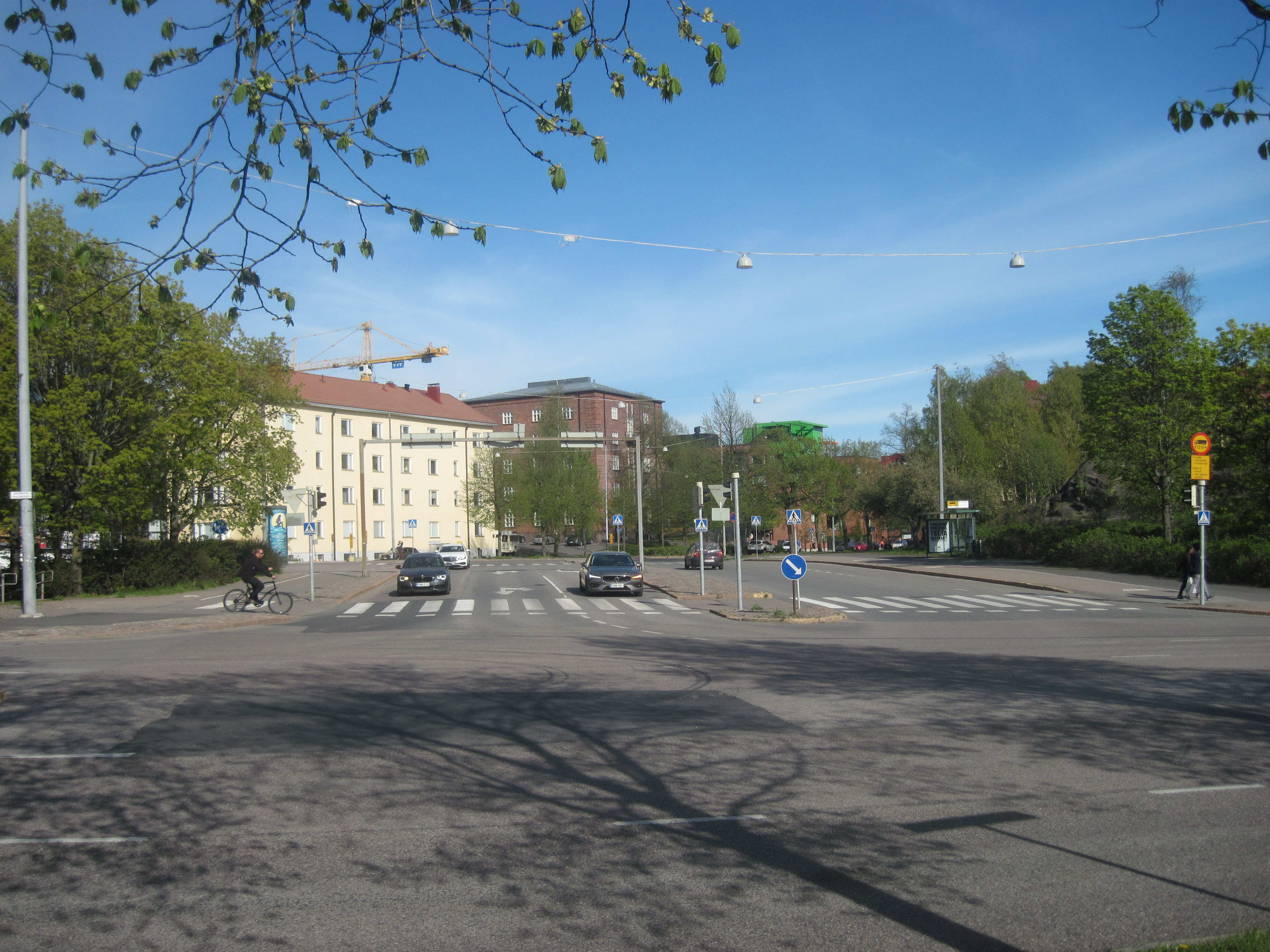 Western end of Aleksis Kiven katu in Helsinki, Finland